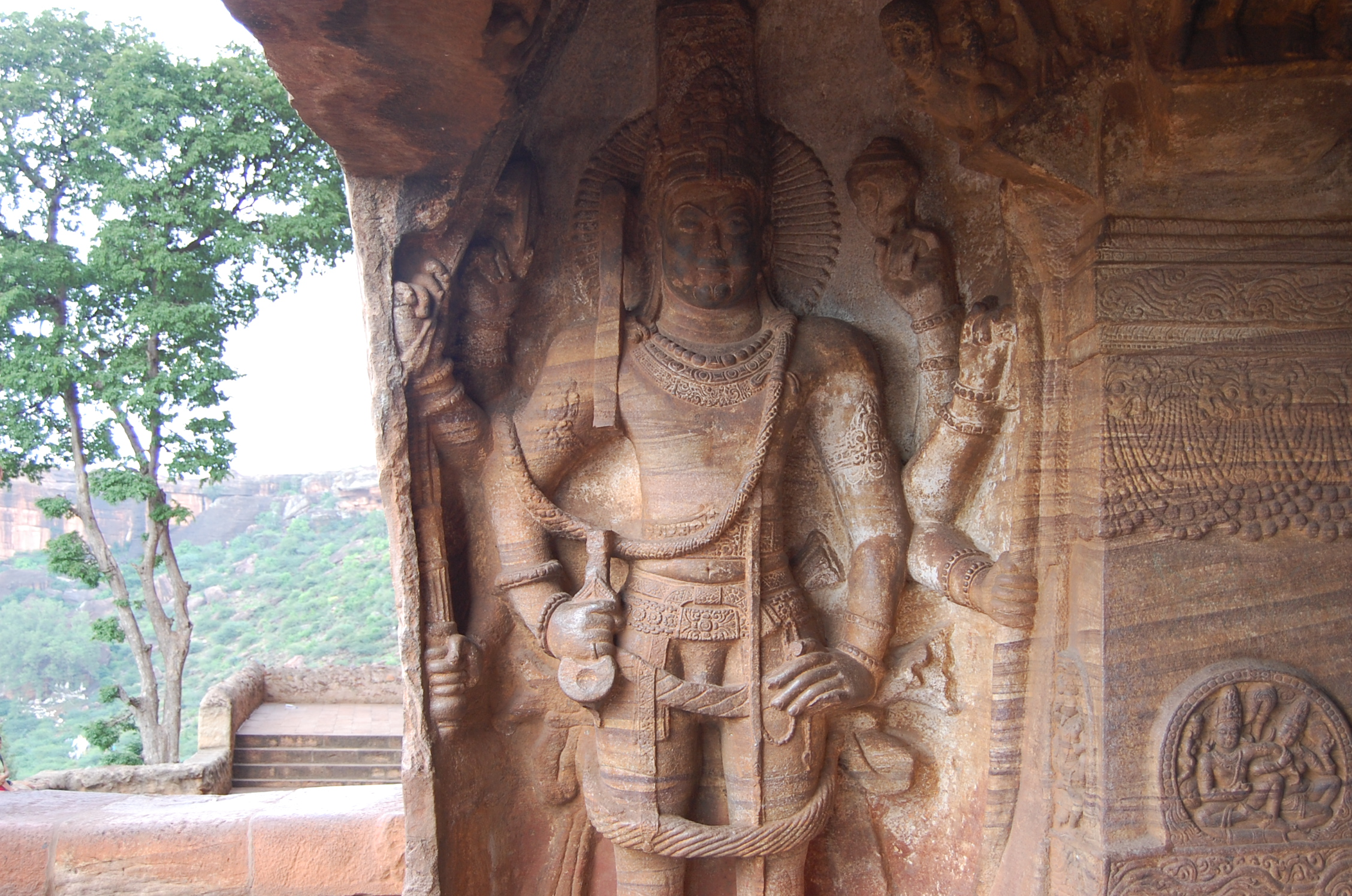 Badami Caves